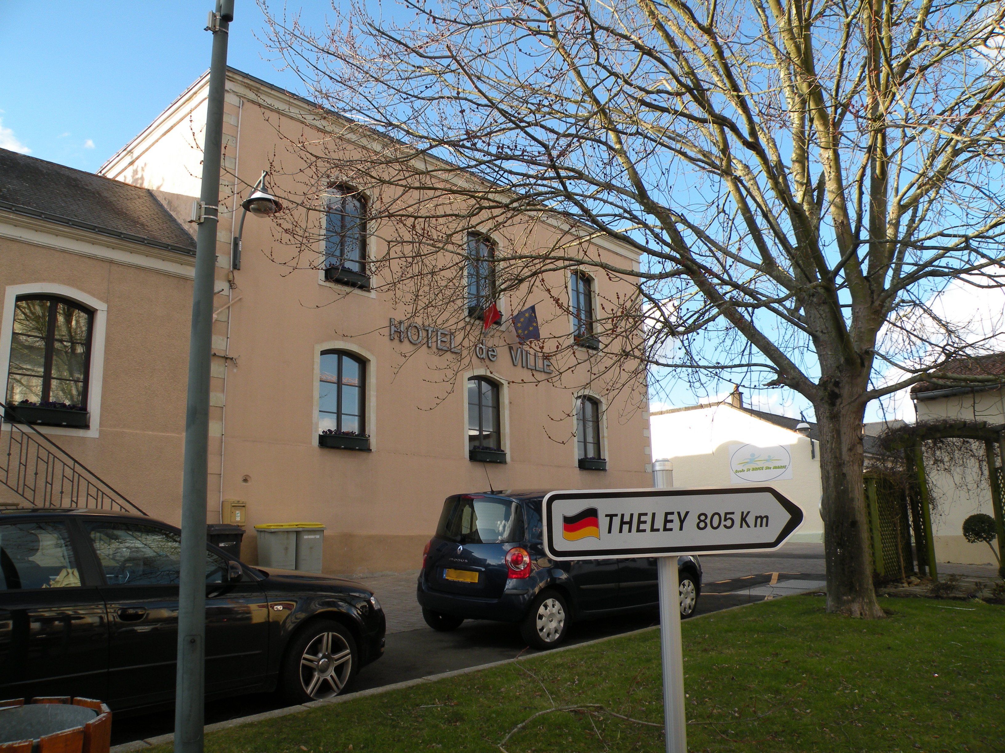 Town hall of Basse-Goulaine